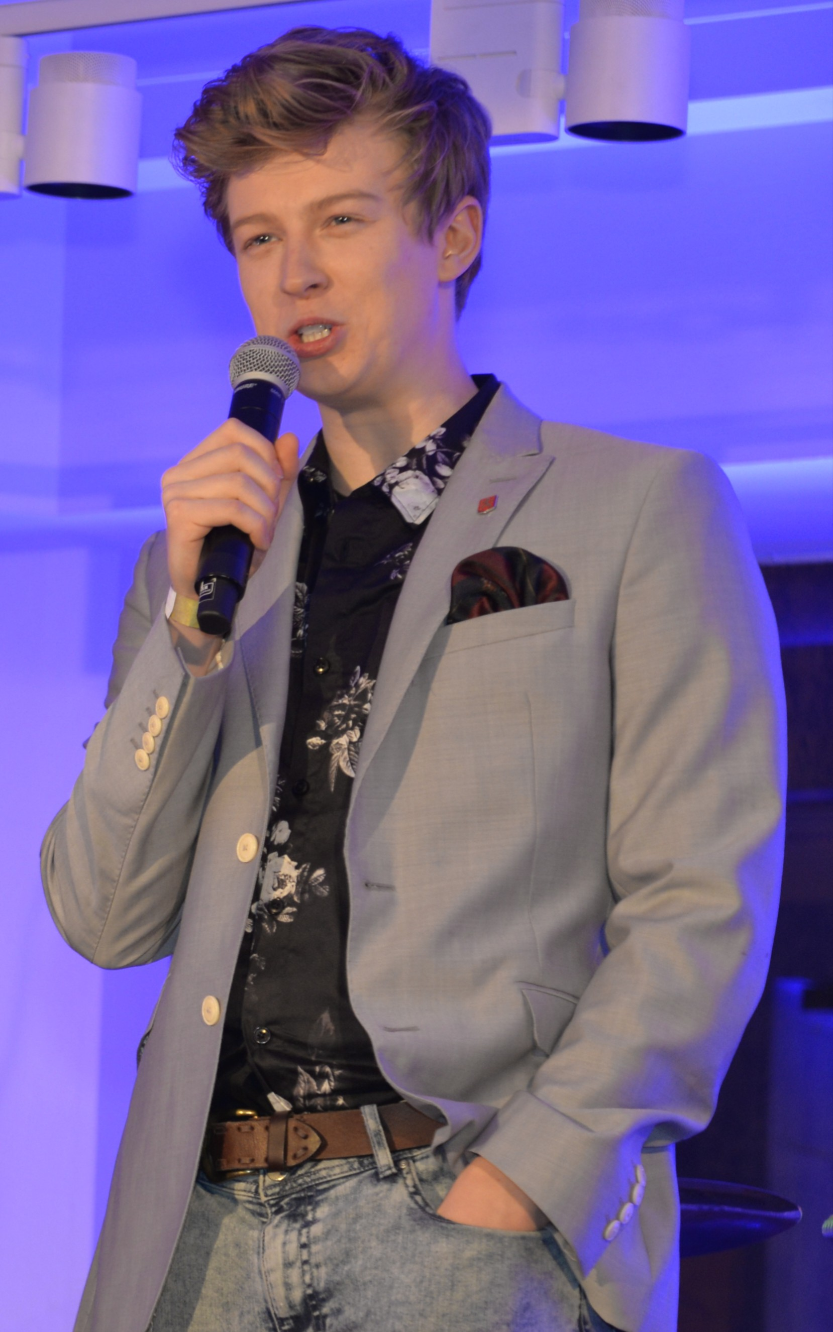 Final part of presidential campaign of Jiří Drahoš in Lucerna Cinema